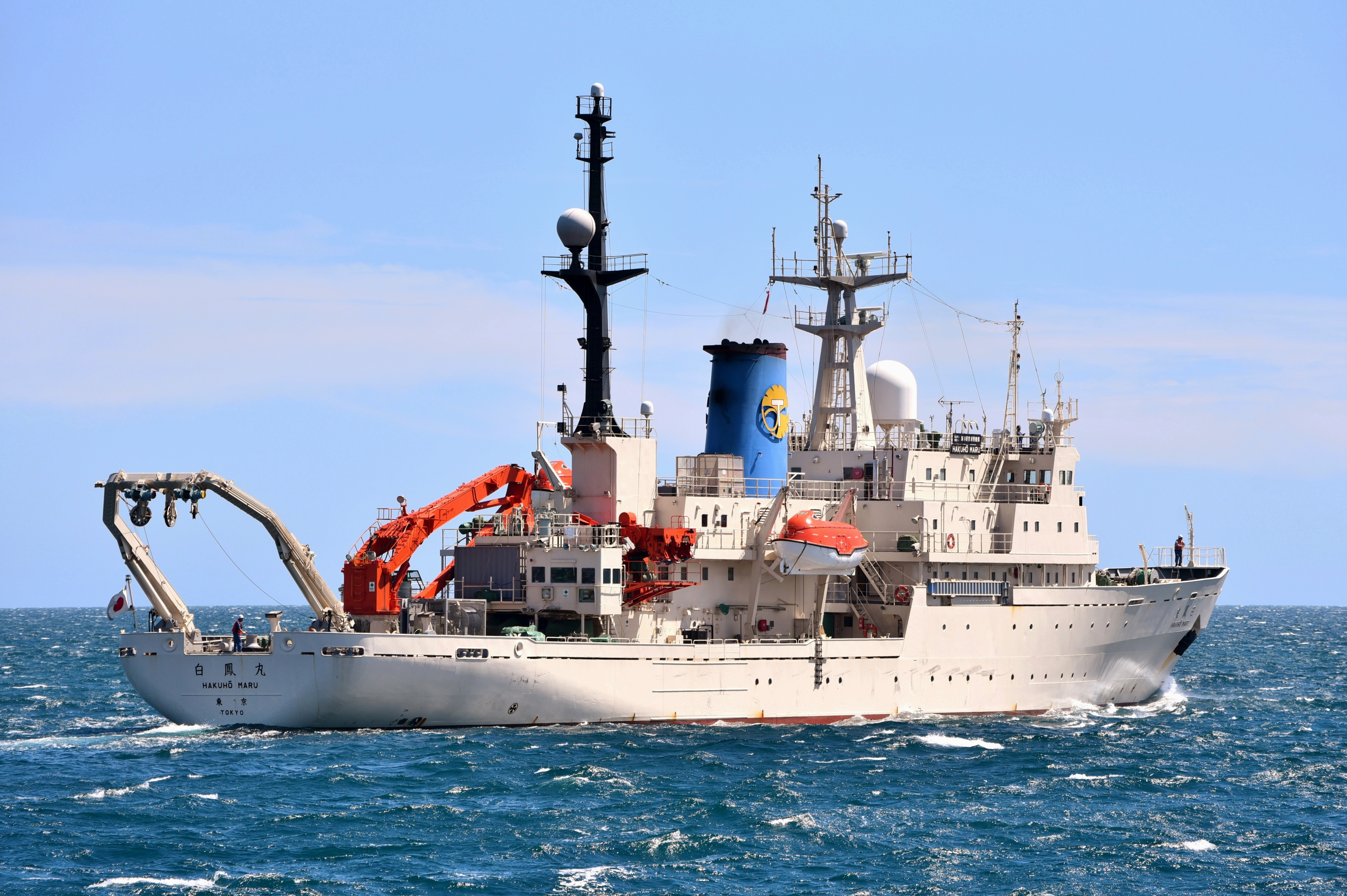 Japanese research vessel Hakuho Maru departing from the inner harbour of the Port of Fremantle, Western Australia